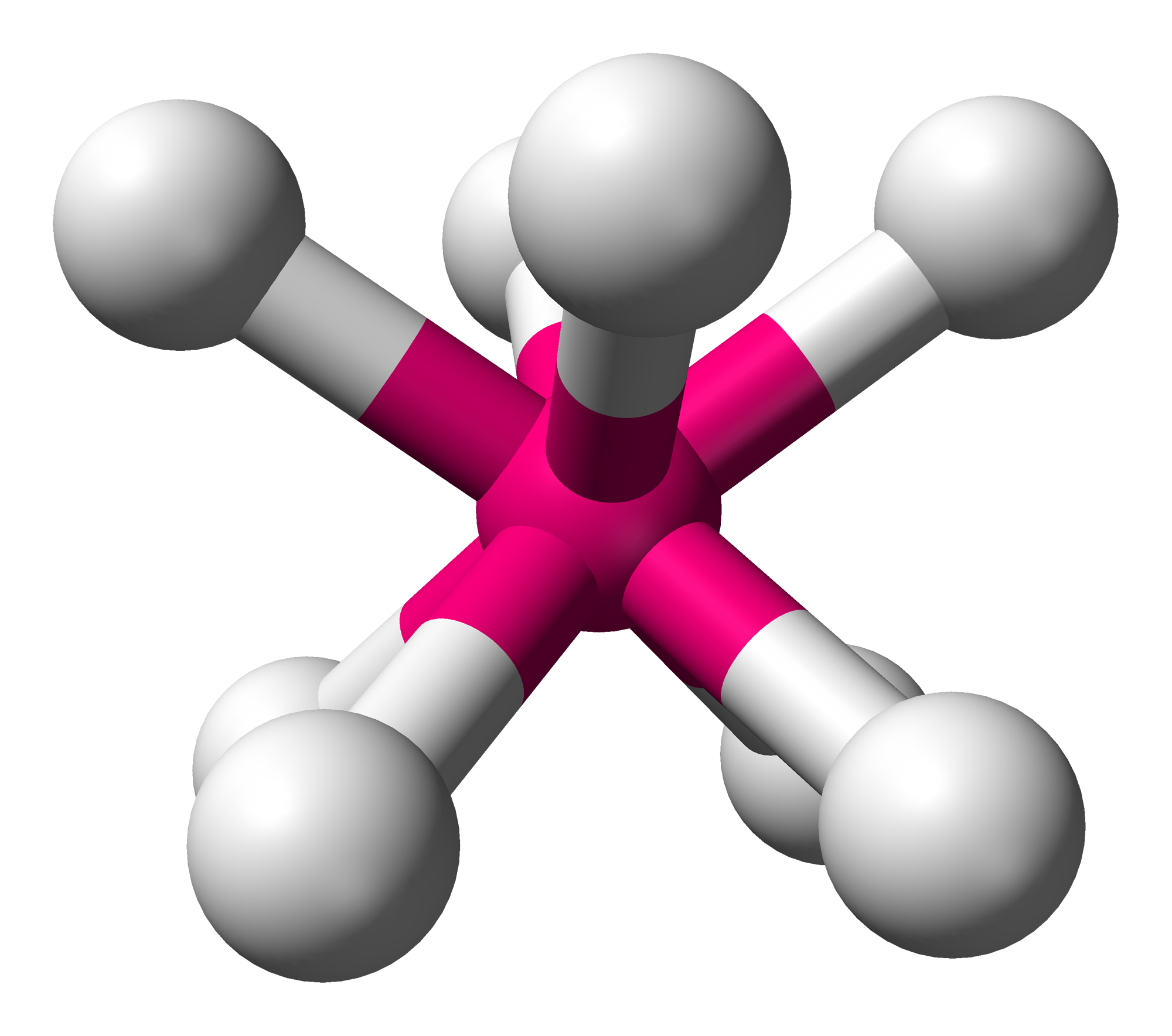 Ball-and-stick model of a generic molecule with square antiprismatic coordination geometry. Colour code: central atom, A: pink ligands, X: white Structure and image generated in Accelrys DS Visualizer.